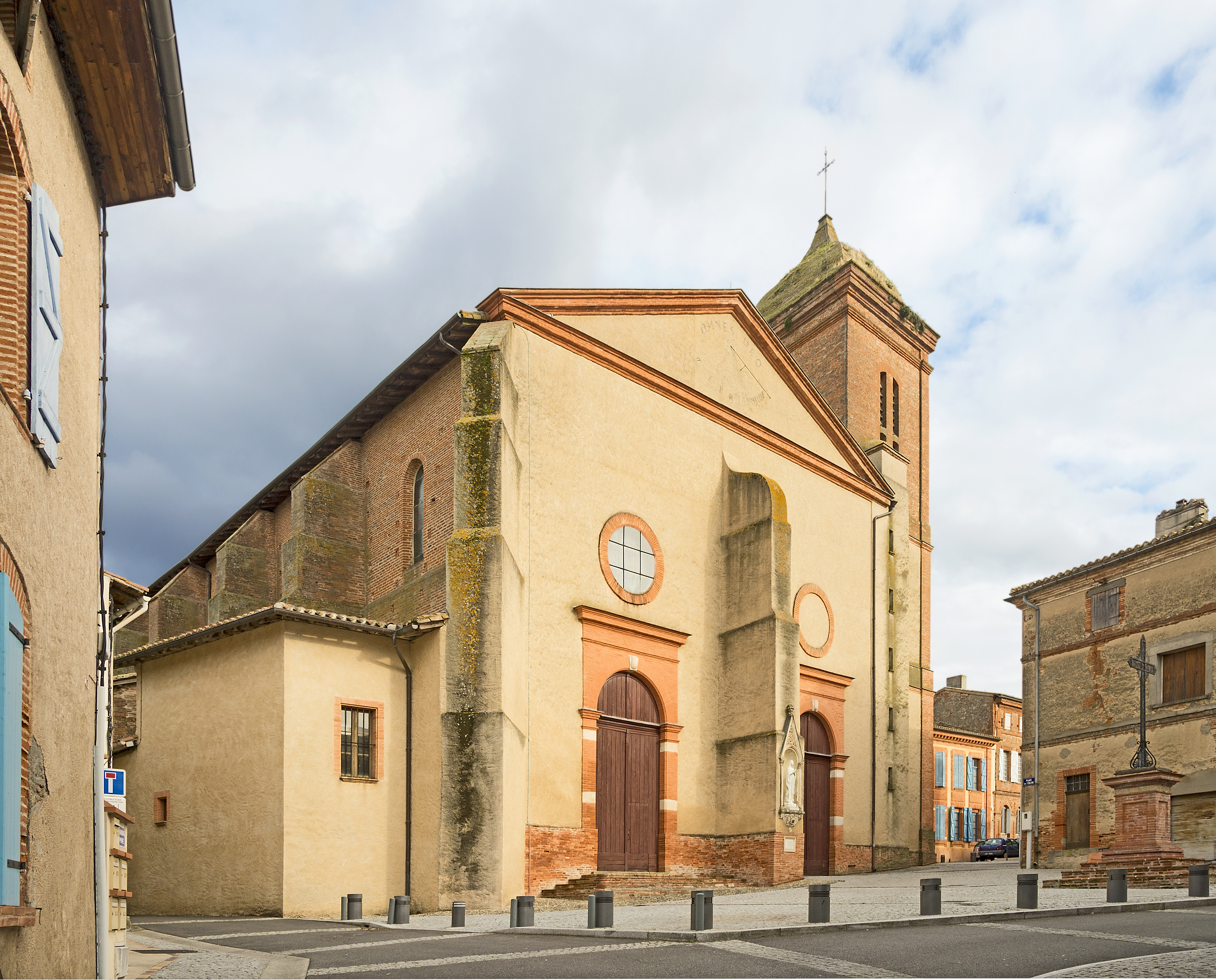 Verdun-sur-Garonne, Tarn-et-Garonne, Church of St. Michel. Facade West exposure